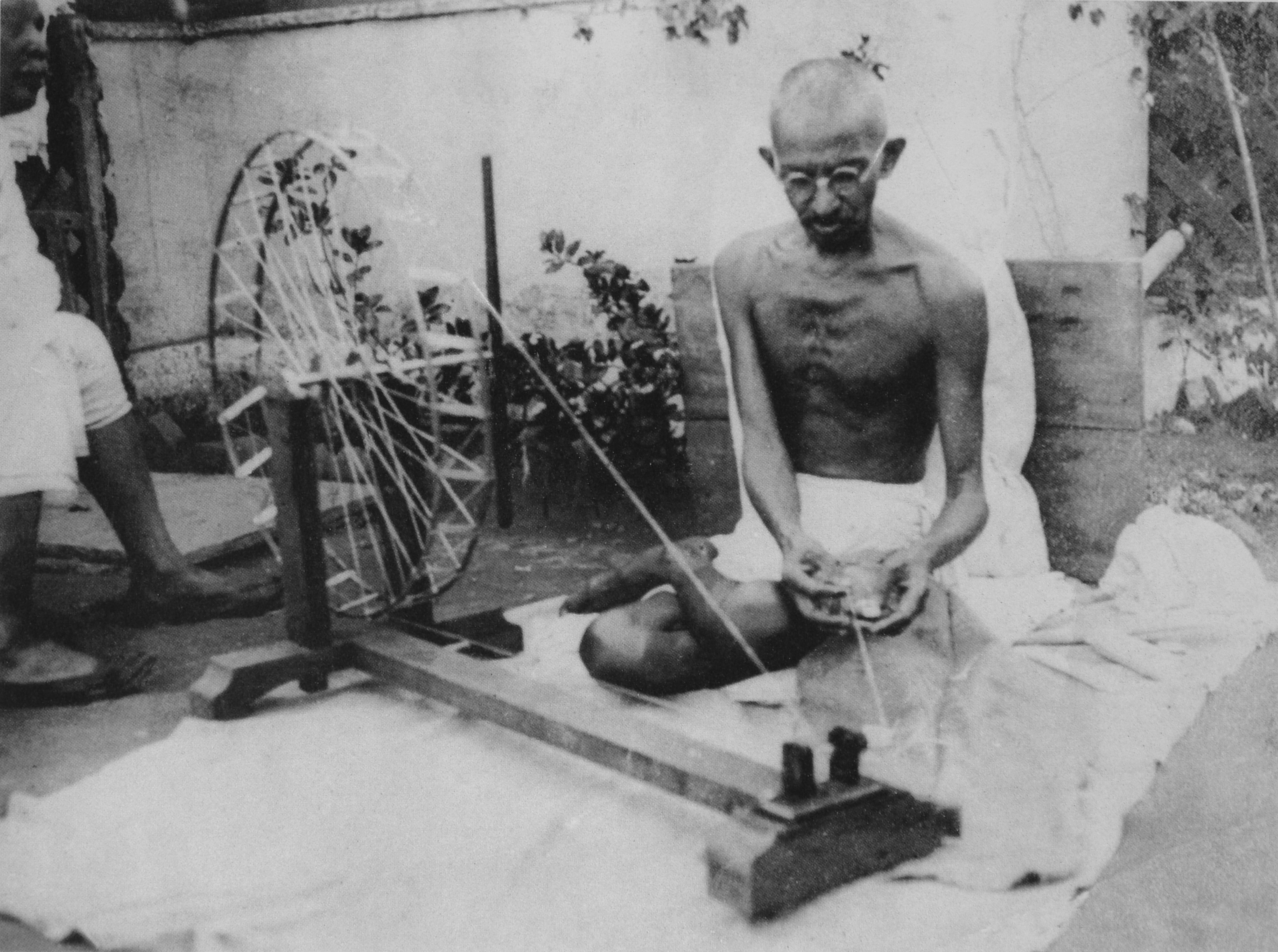 Gandhi spinning. Location unknown.